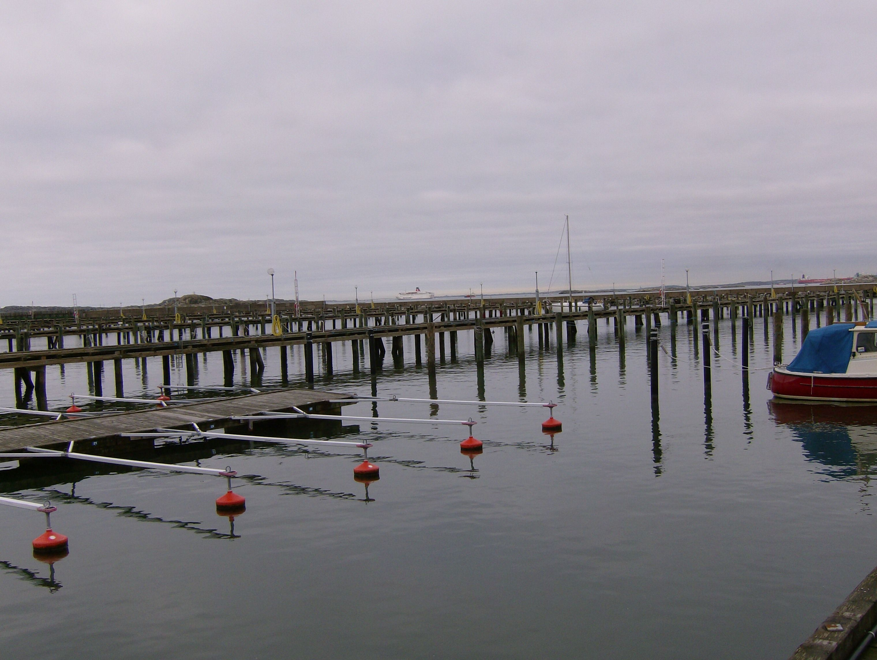 View over marina Saltholmen to river Göta and Kattegat